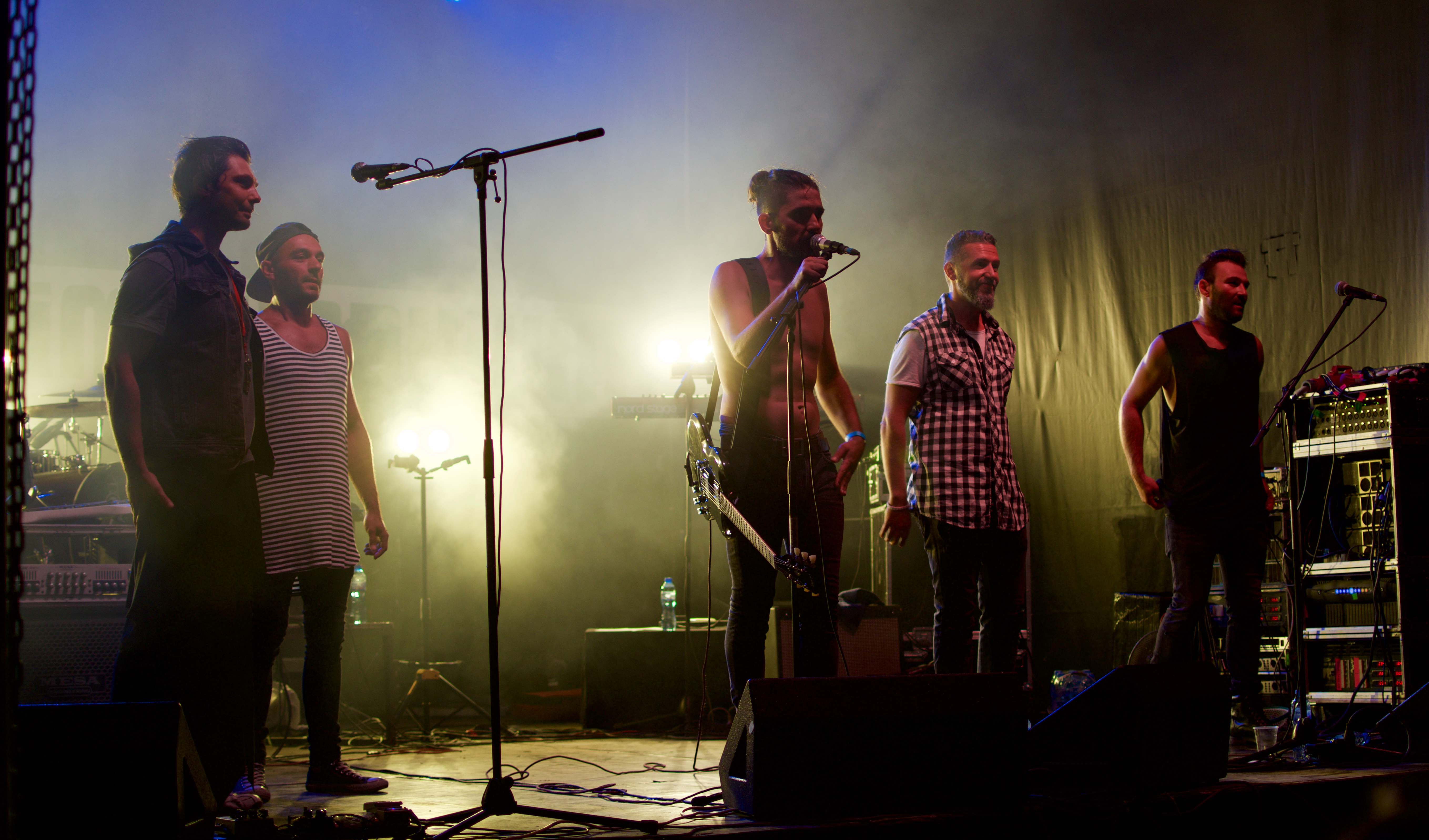 The Bulgarian band "Jeremy?"